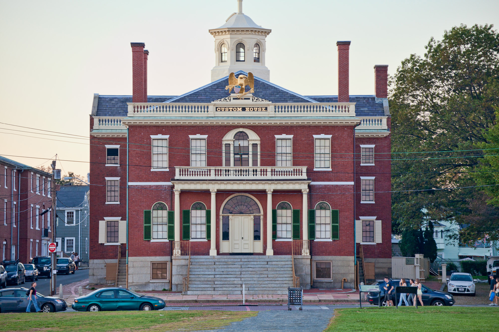 Derby Waterfront District